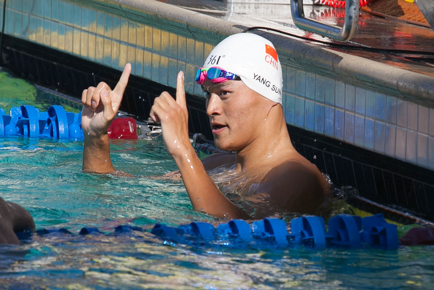 Sun Yang after winning 200 free